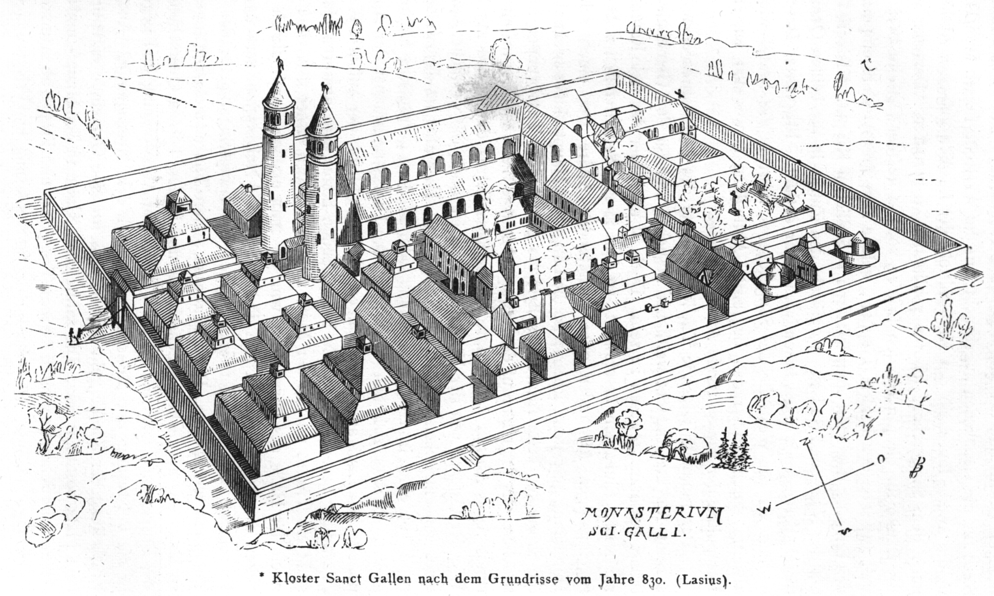 "Reconstruction of the buildings of the abbey of Saint Gall according to the historical plan from the early 9th century" - Note the Plan is from St Gall, but was apparently never built, and may not have been produced or intended for there.